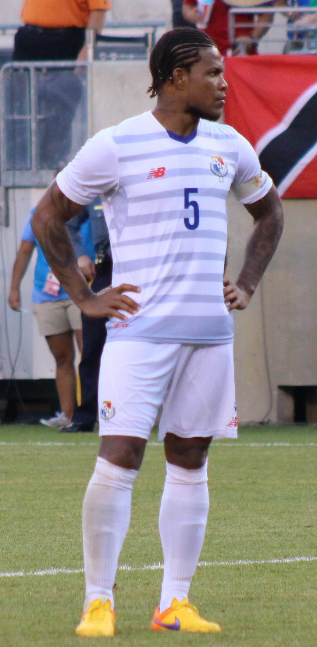 Panamanian footballer Román Torres